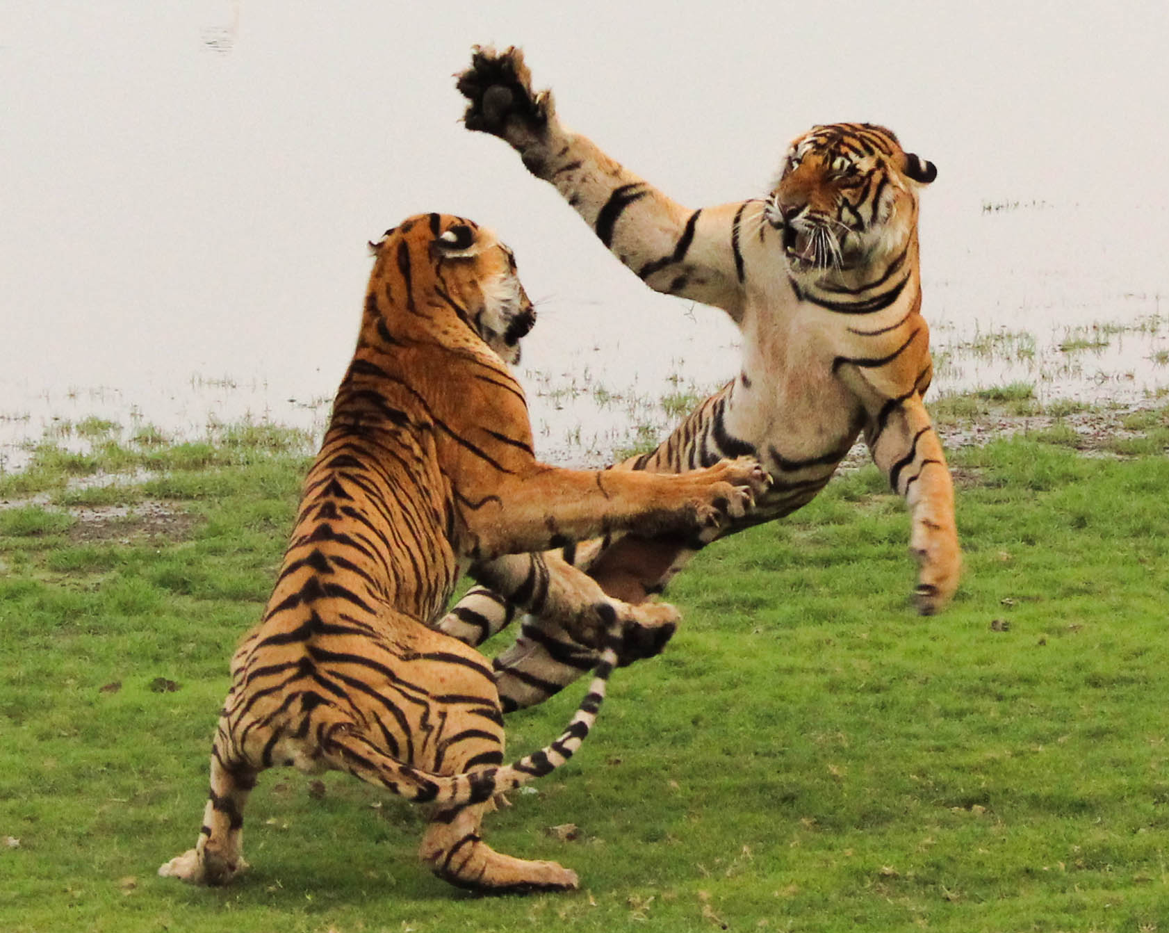 The two female cubs of T-19 in a playful mood at Ranthambore tiger reserve